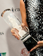 Trophy of Juno Awards from 2010